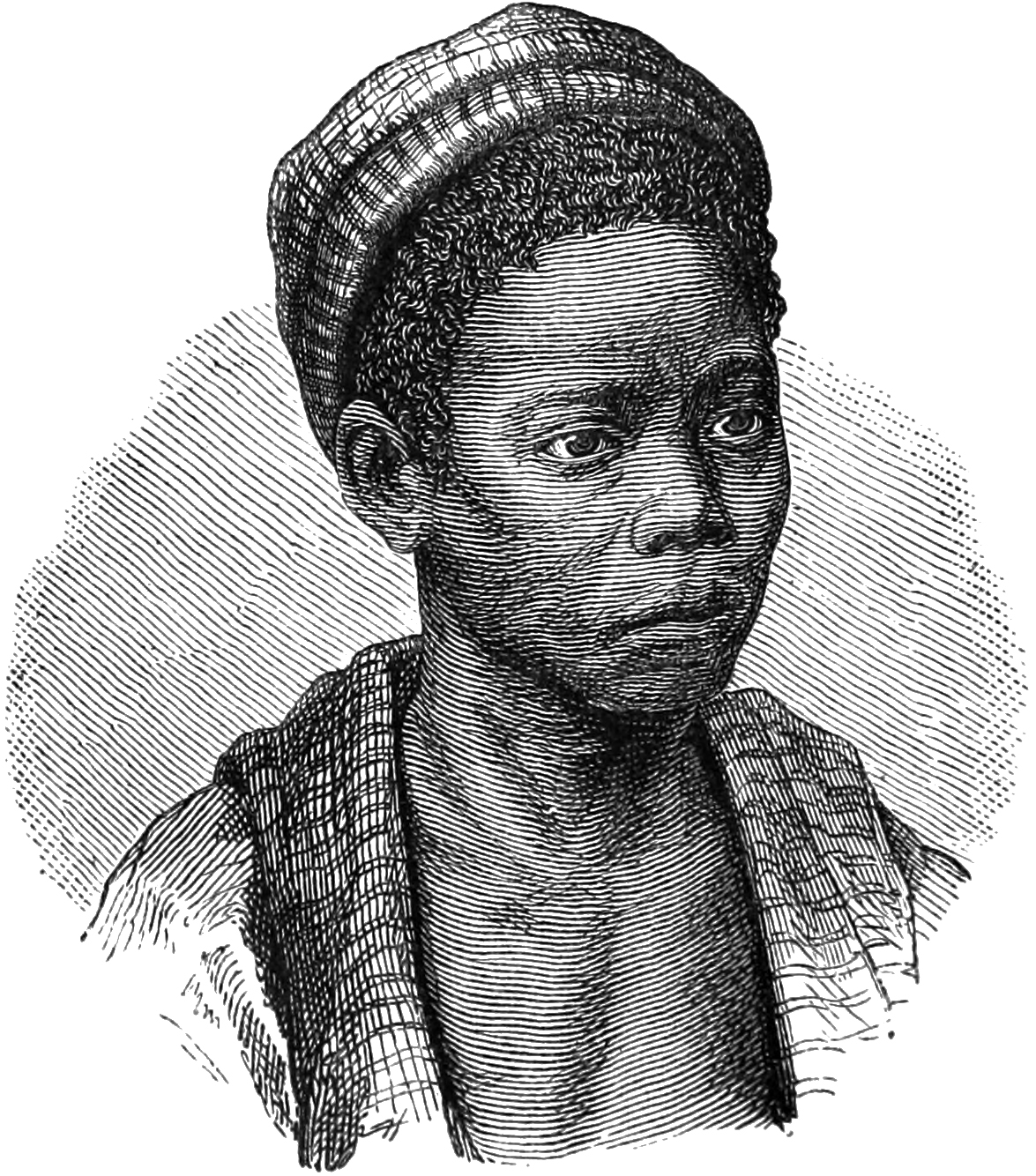 Bella, from the book Seven Years in South Africa, volume 2, page 454